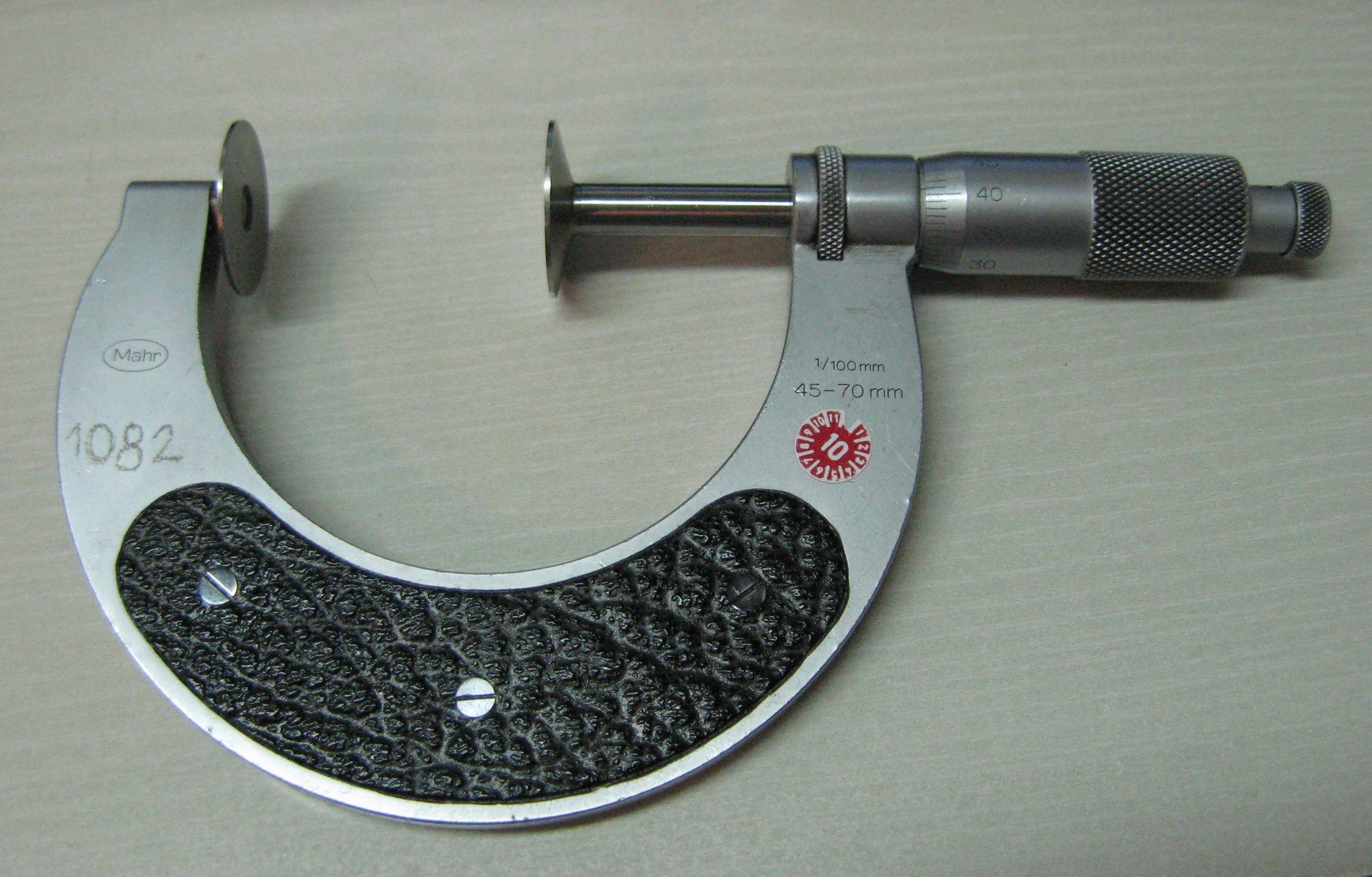 Micrometer